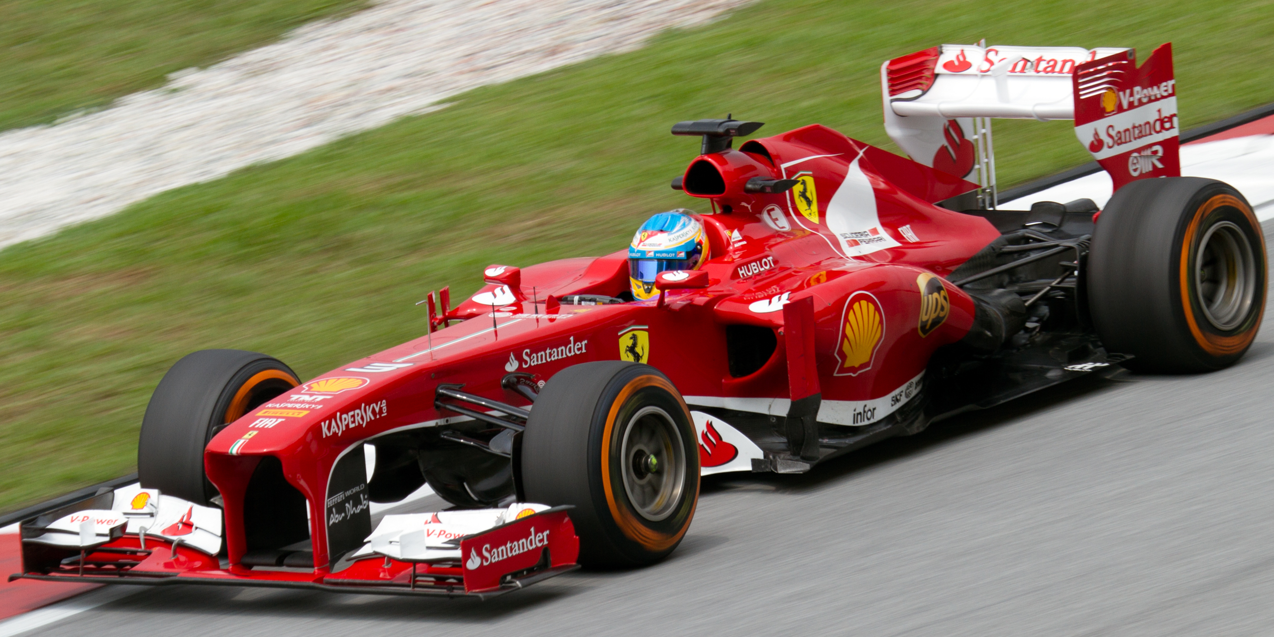 Formula One 2013 Rd.2 Malaysian GP: Fernando Alonso (Scuderia Ferrari) during the second practice session on Friday.